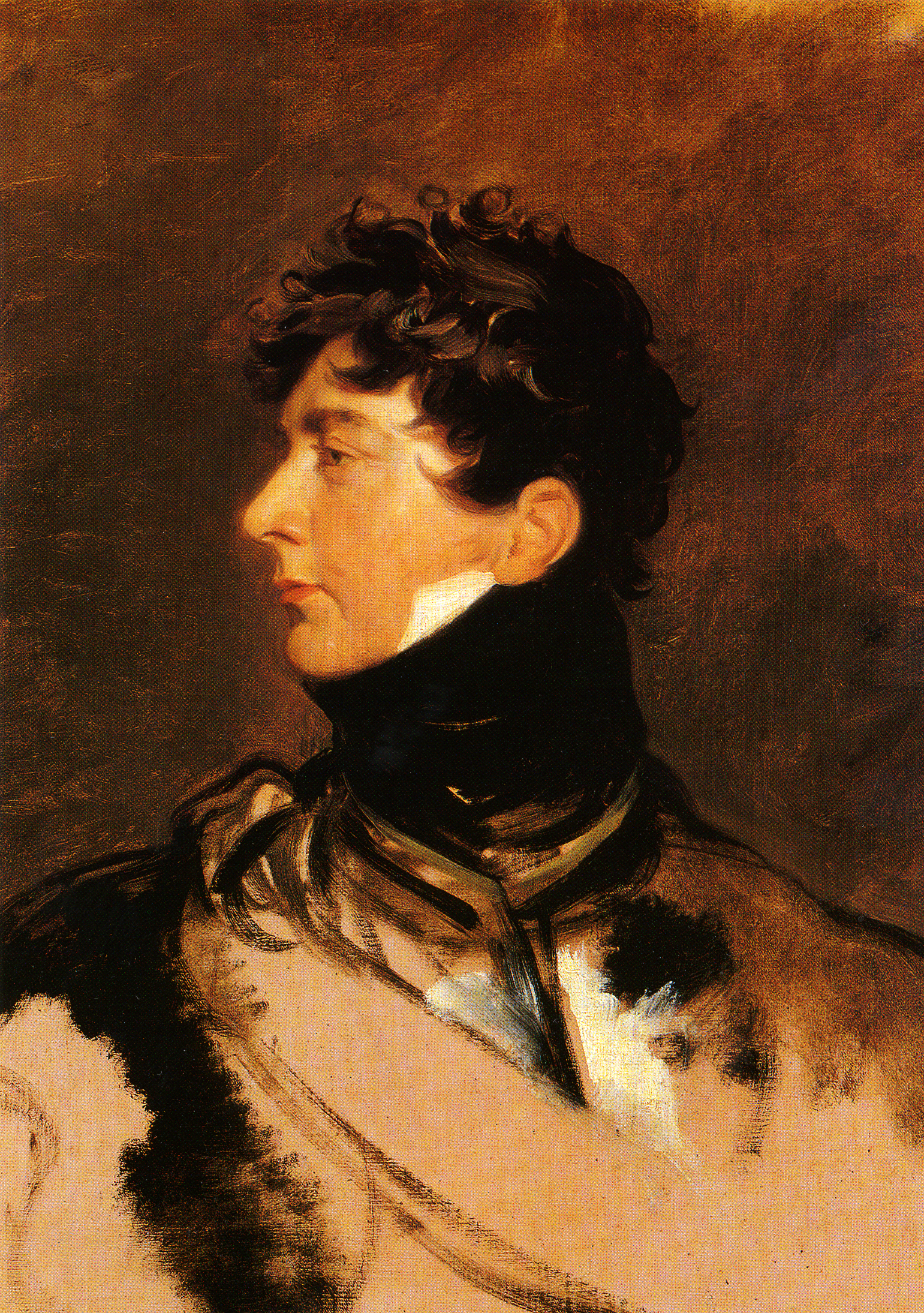 George IV of the United Kingdom (1762-1830), Regent 1811-20; reigned 1820-30. Oil on canvas, 36 in. x 28 in. (914 mm x 711 mm), purchased, 1861, on display in at the National Portrait Gallery. Artist: (quoted from the National Portrait Gallery) Sir Thomas Lawrence (1769-1830), Portrait painter, collector and President of the Royal Academy. Artist associated with 425 portraits, Sitter in 13 portraits. In 1814, Lord Stewart, who had been appointed ambassador in Vienna and was a previous client of Thomas Lawrence, wanted to commission a portrait by him of the Prince Regent (later King George IV). He therefore arranged that Lawrence should be presented to the Prince Regent at a levée. Soon after, the Prince visited Lawrence at his studio in Russell Square. Lawrence wrote to his brother that To crown this honour, [he] engag'd to sit to me at one today and after a successful sitting of two hours, has just left me and comes again tomorrow and the next day. The result was a drawing in the Royal Collection, this dashing oil sketch of his head in profile like a Classical god and a large portrait of him in Field Marshall's uniform.